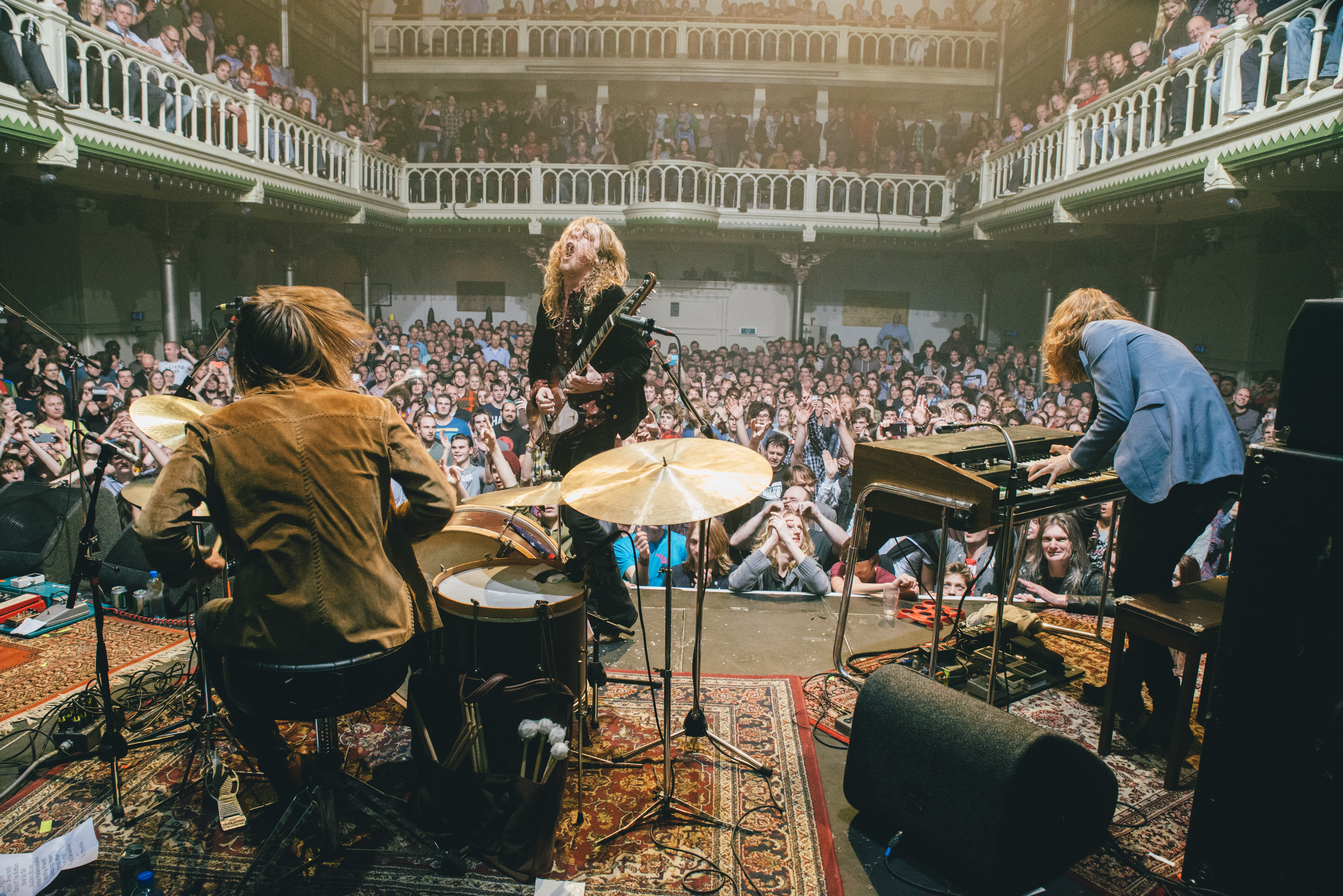 DeWolff in Paradiso, Amsterdam